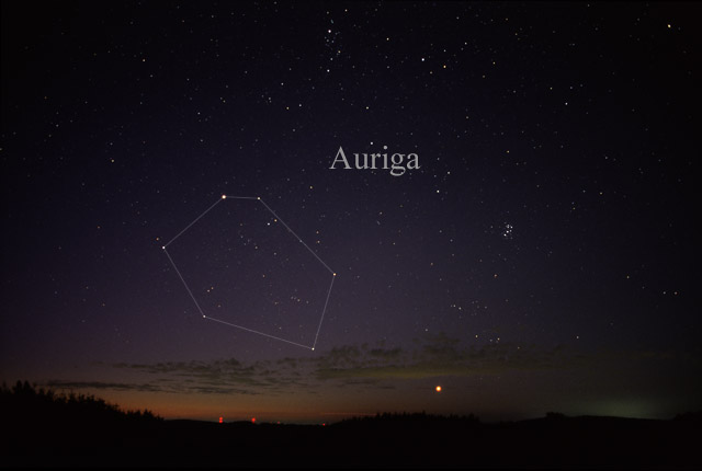 Photography of the constellation Auriga, the charioteer